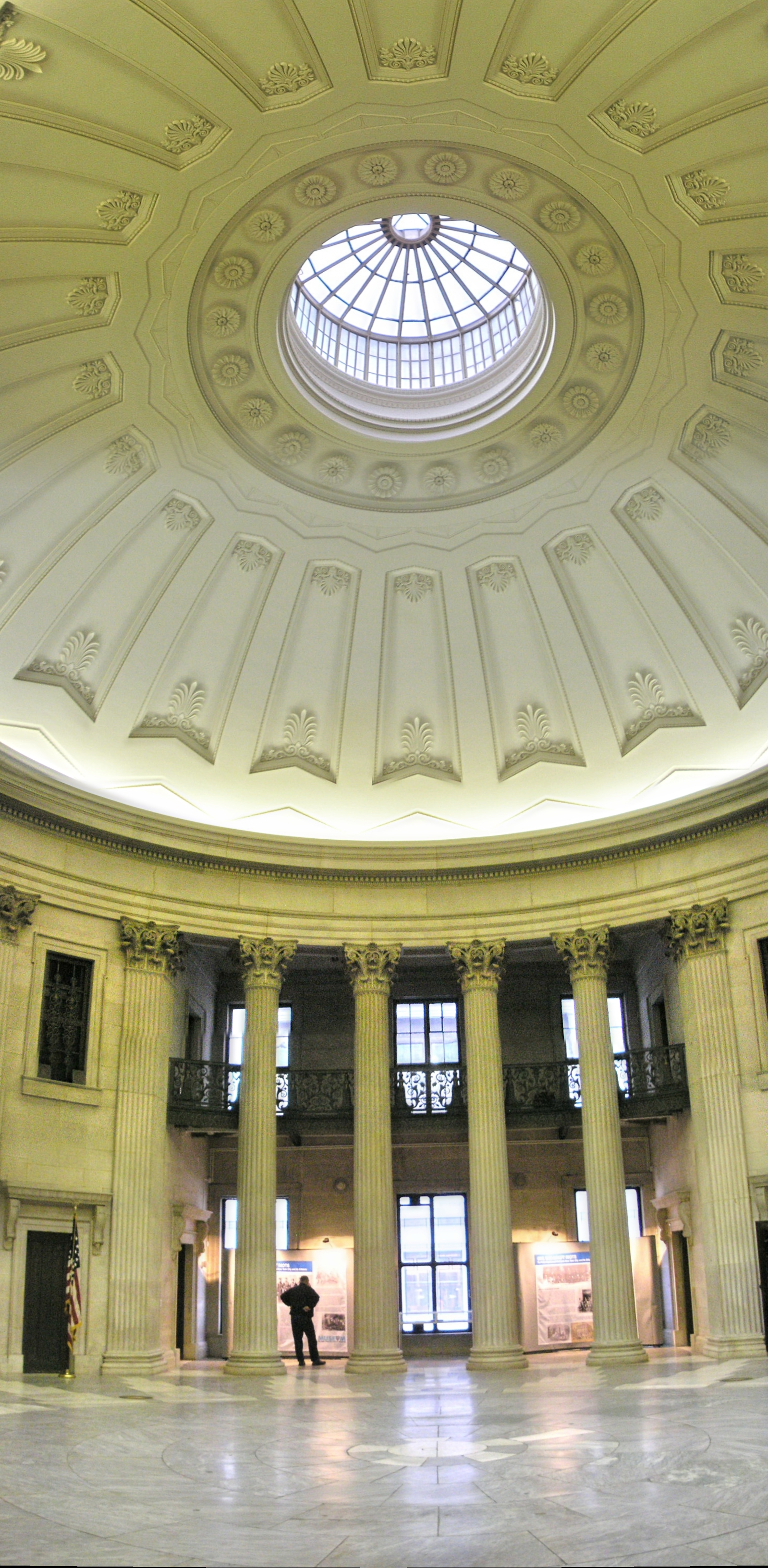 Interior view of the Federal Hall in New York City.